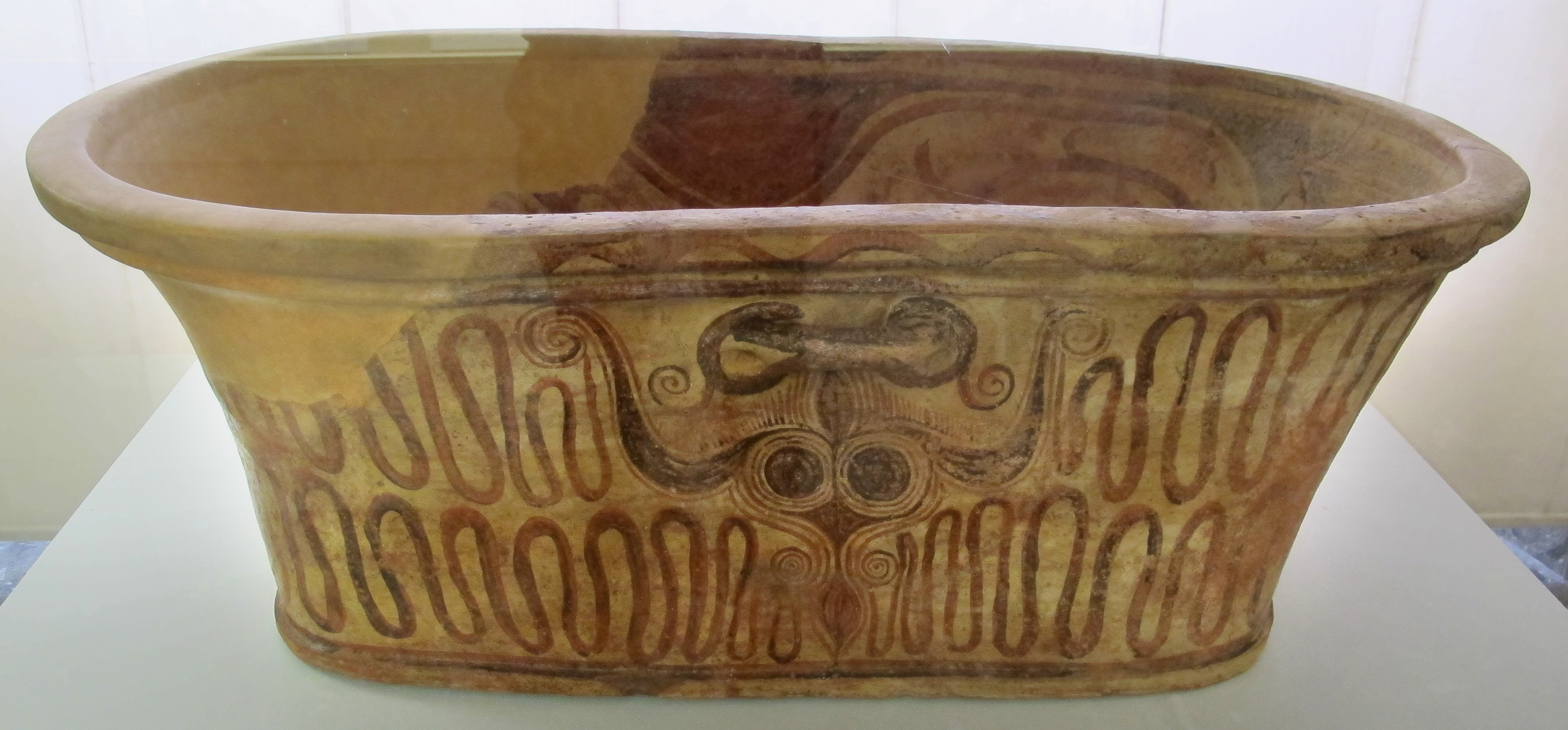 Greek antiquities in the Musée d'art et d'histoire de Genève